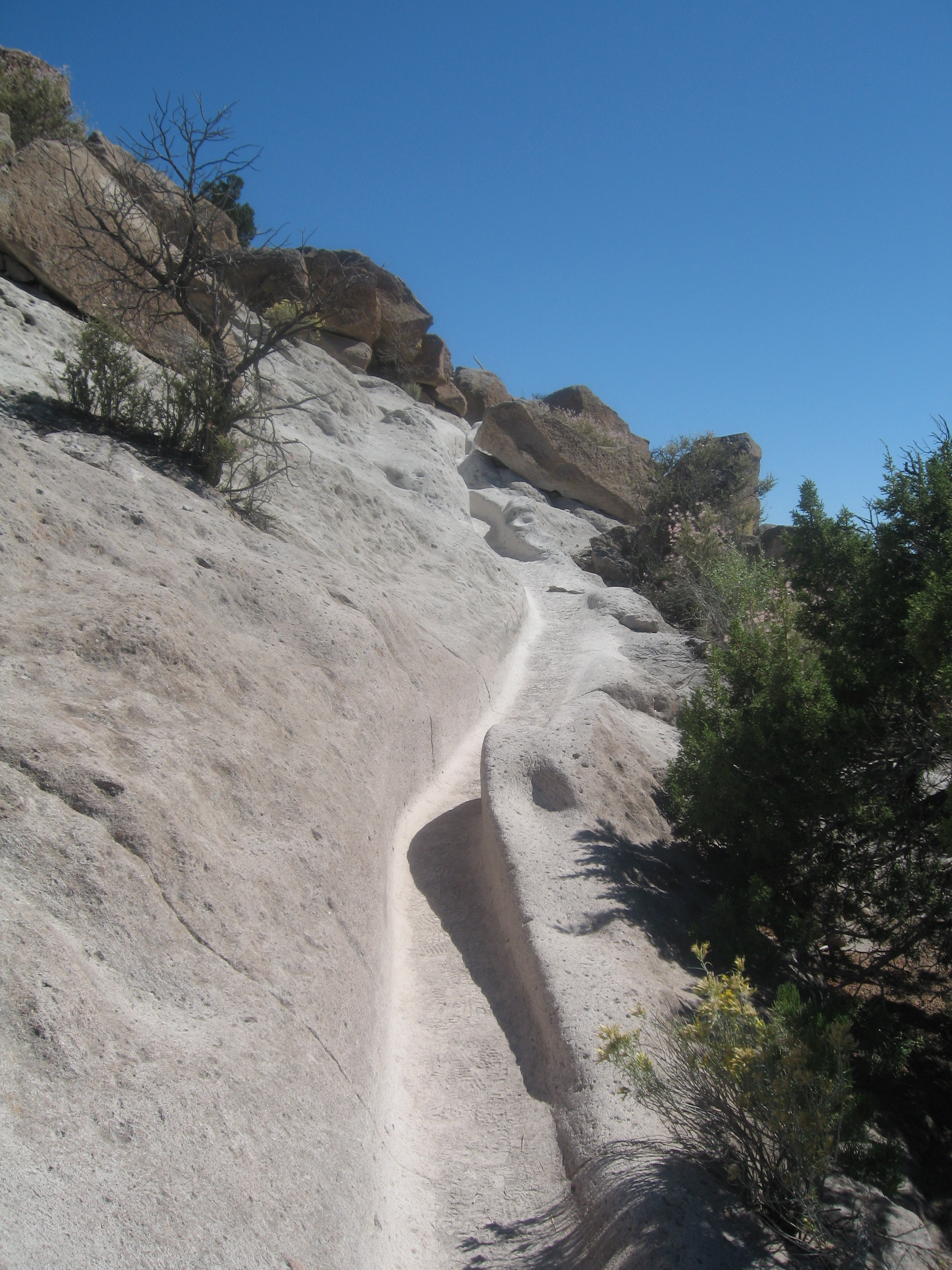 A footpath is worn into the soft Tuff at Tsankawi, Bandelier National Monument, New Mexico.